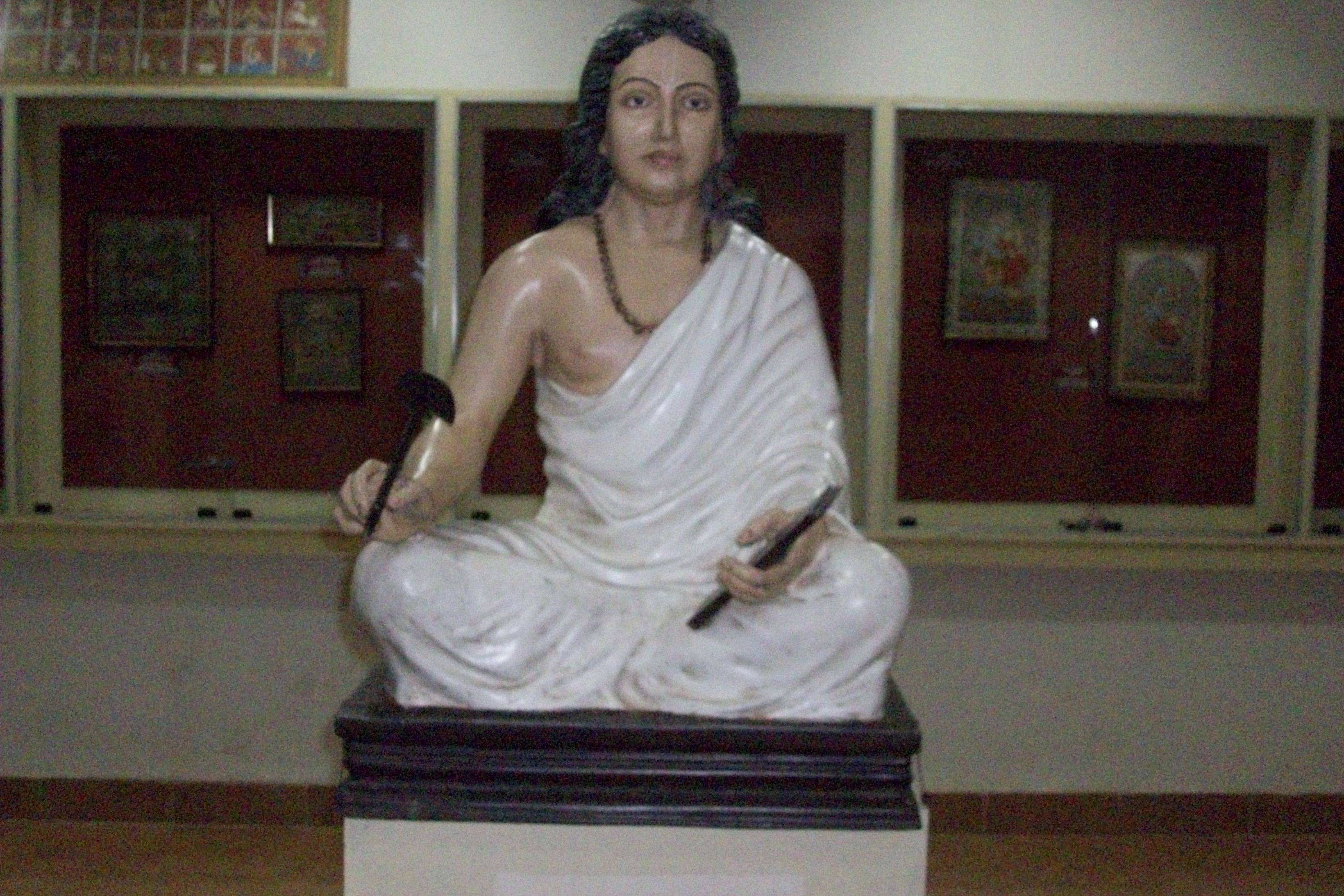 A manochitra or statue from imagination of the12th century sanskrit saint poet jayadeva at the Museum in Kendavilwa, birthplace of the poet.